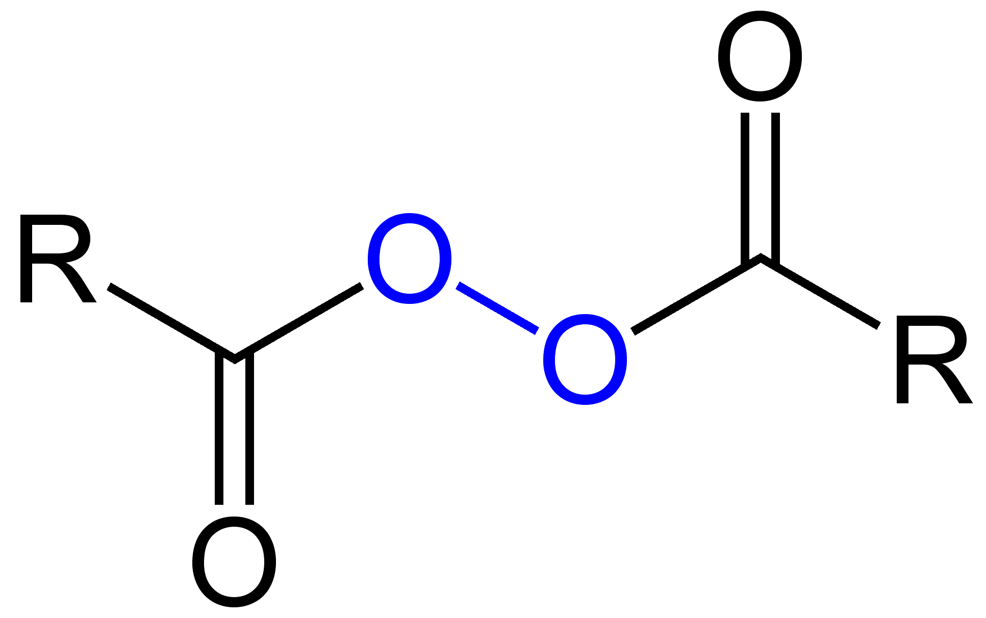 Diacylperoxides